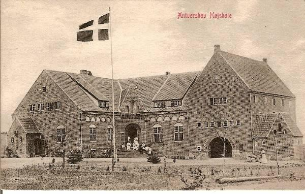 Postcard of Antvorskov Folk High School in Antvorskov, Slagelse, Denmark. The institution existed 1908-1972.